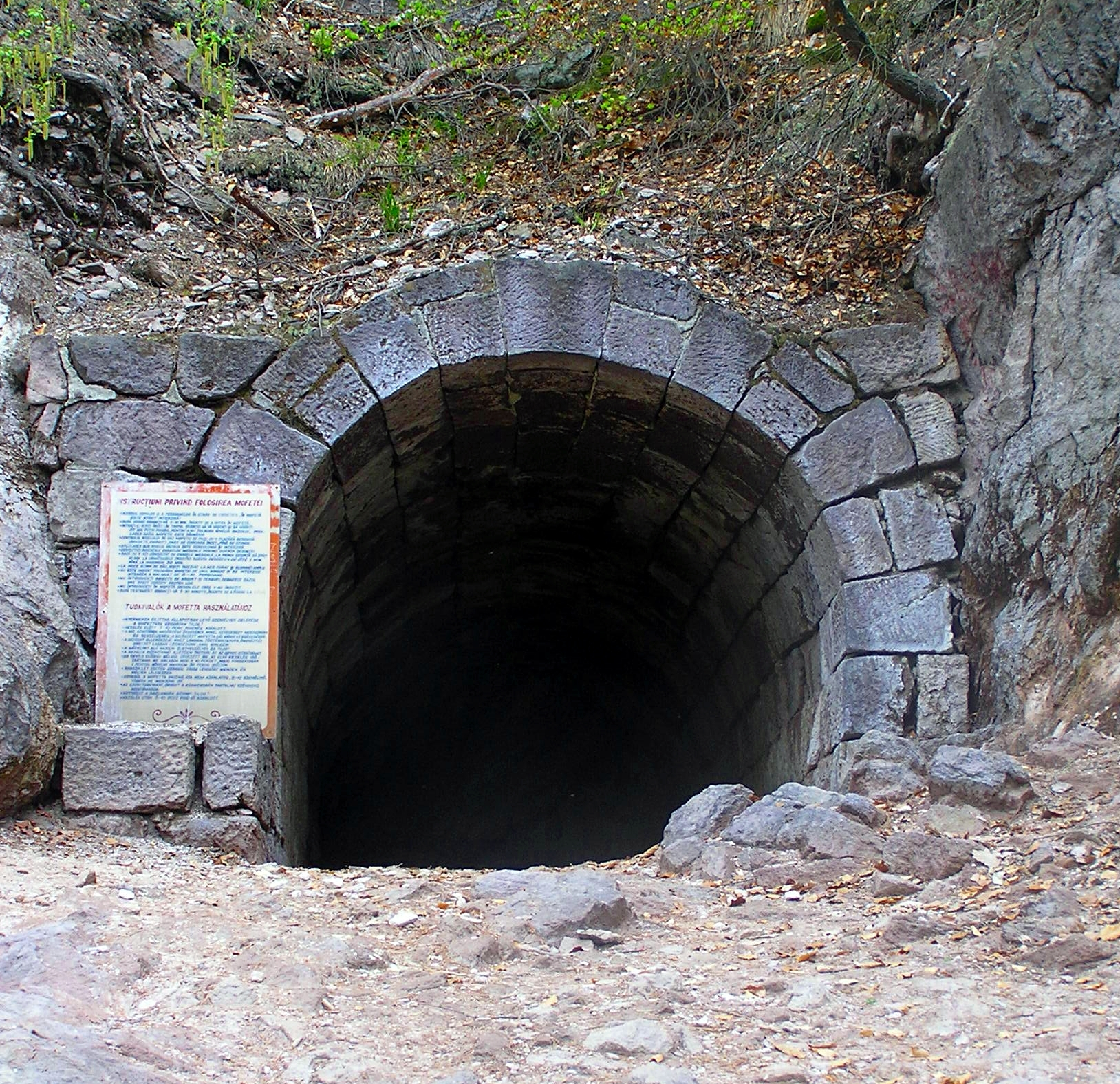 The entrance of Torjai Büdösbarlang (~ The Smelly Cave of Torja)